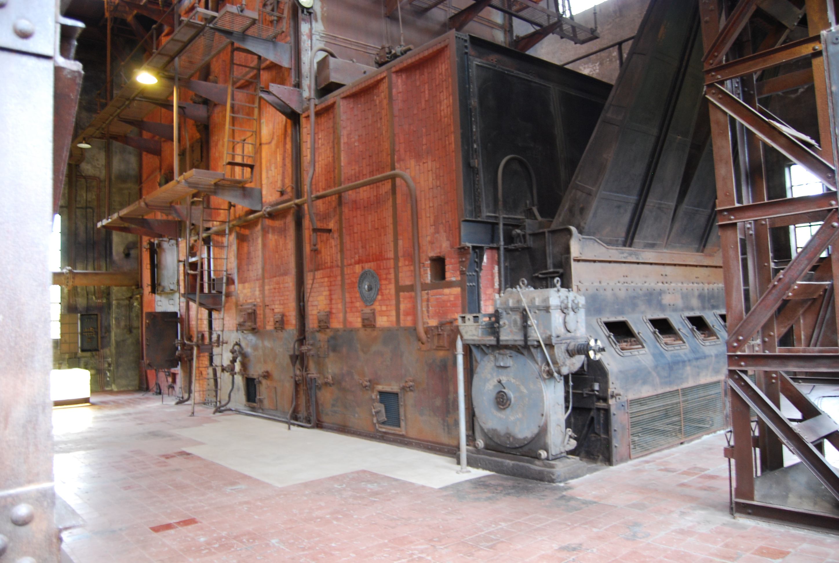 Boilers room in MSP´s power plant in Ponferrada, Spain